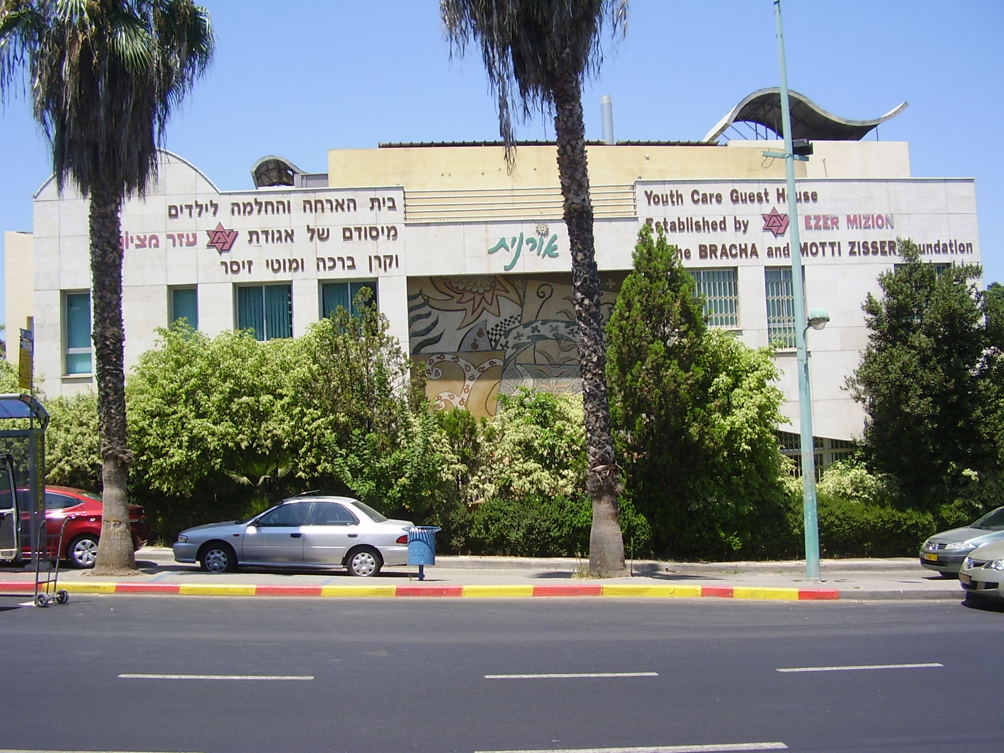 oranit recovery house for young cancer patients in petah tikva, israel בית החלמה "אורנית" לצעירים חולי סרטן בפתח תקווה